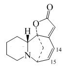 Securunine structure